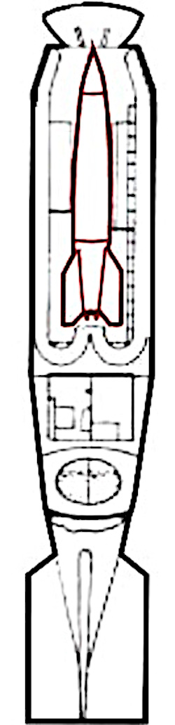 V2 U-boat Rocket